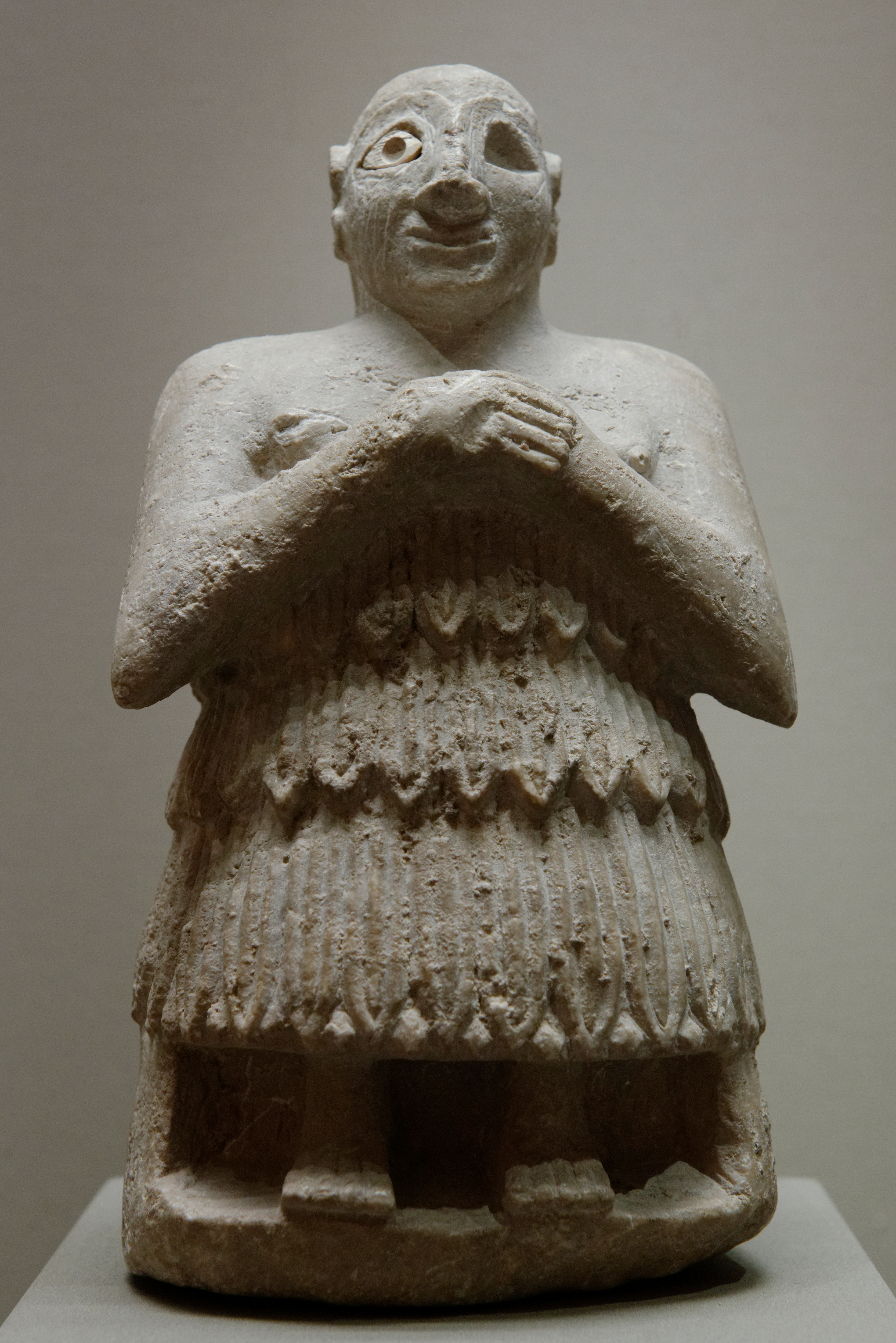 Statuette of seated orant.